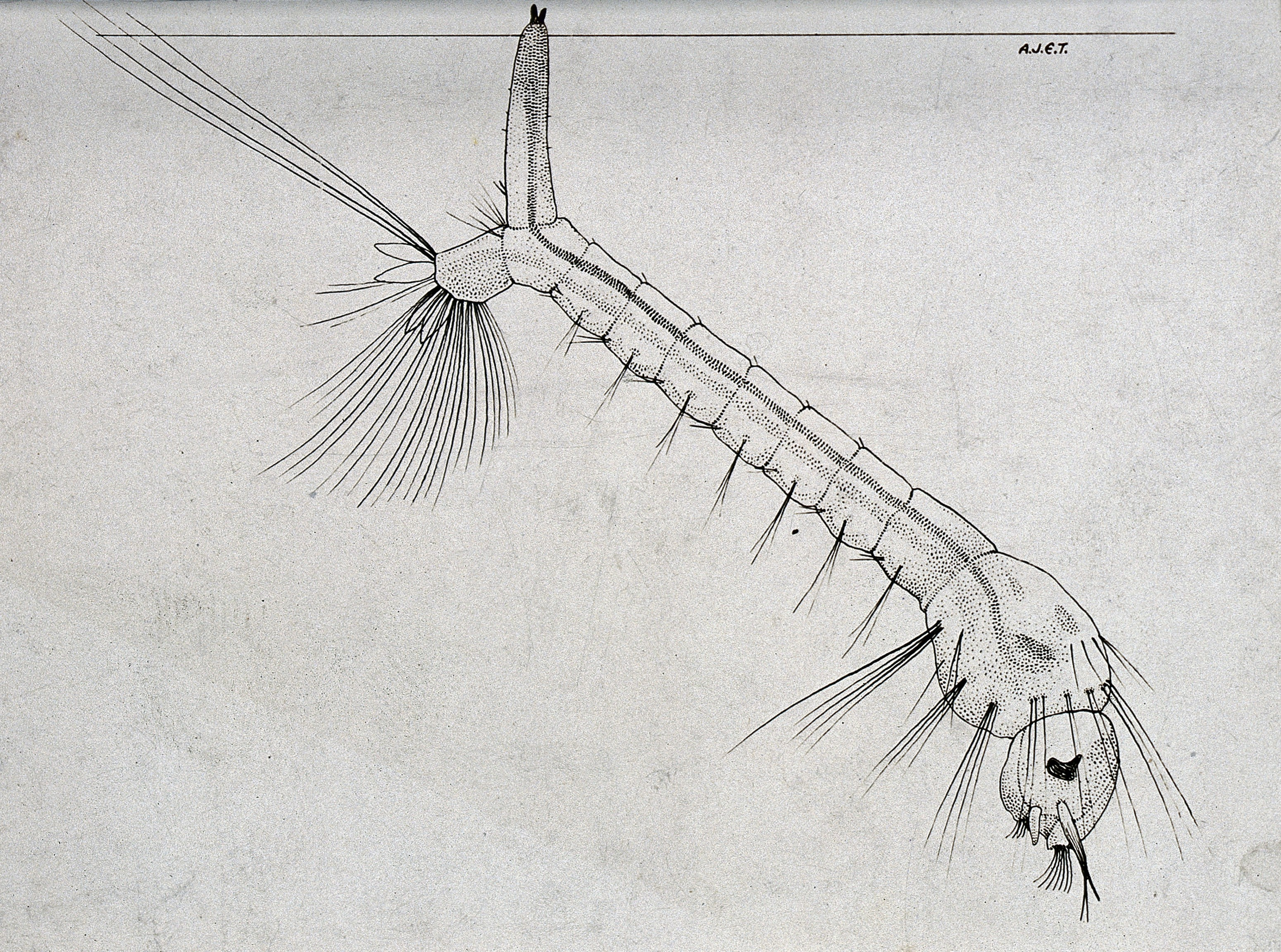 The larva of a Culicine Mosquito hanging down from the surface of the water. Reproduction of a drawing by A.J.E. Terzi, ca 1919. Iconographic Collections Keywords: Amedeo John Engel Terzi